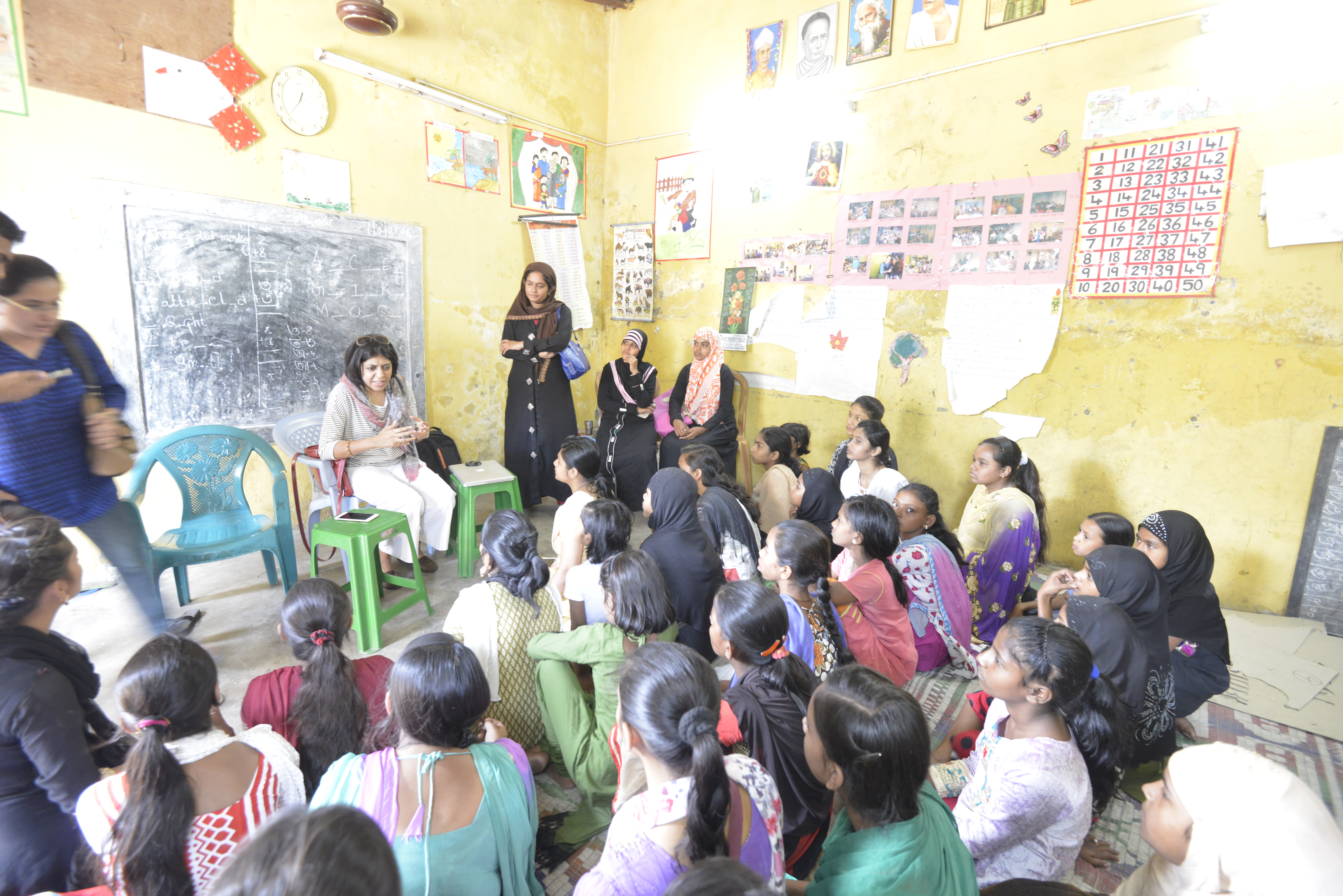 Rural Awareness Campaign at Kutoli